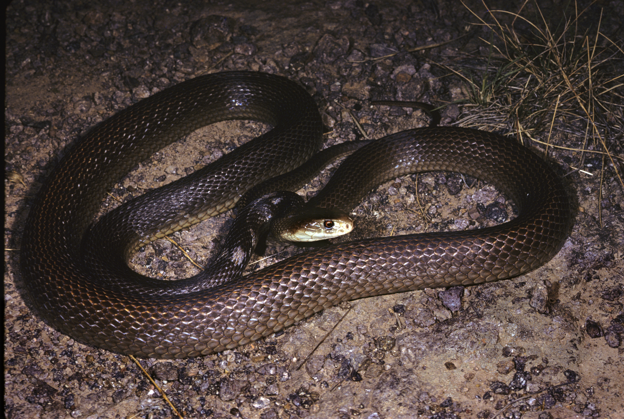 Taipan – Oxyuranus scutellatus, photographed at Cooktown, Queensland, February 1980.